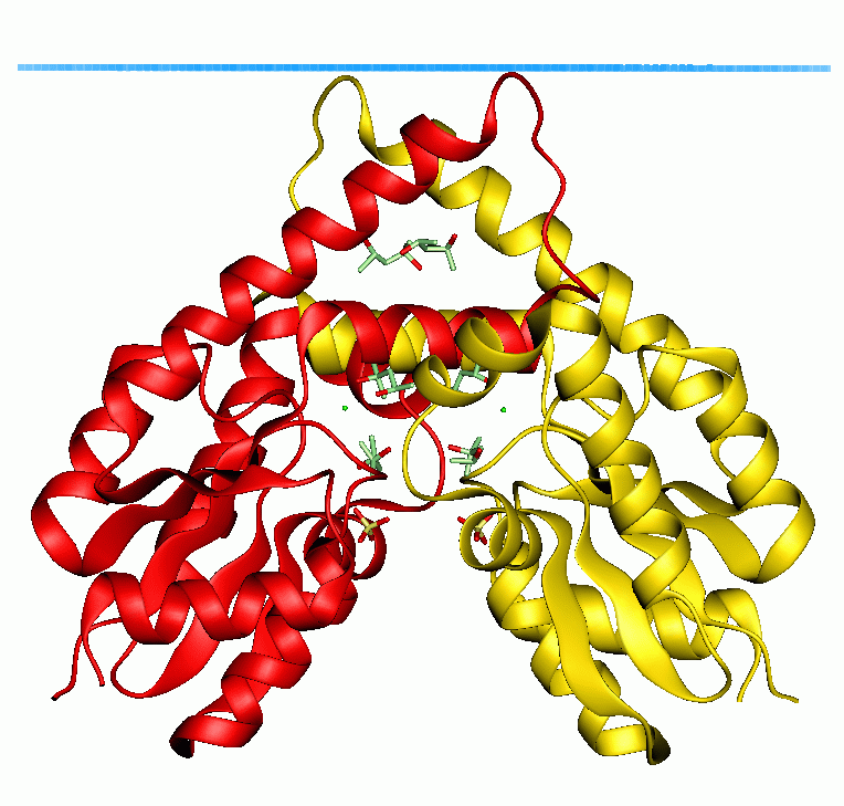 Protein image from OPM database